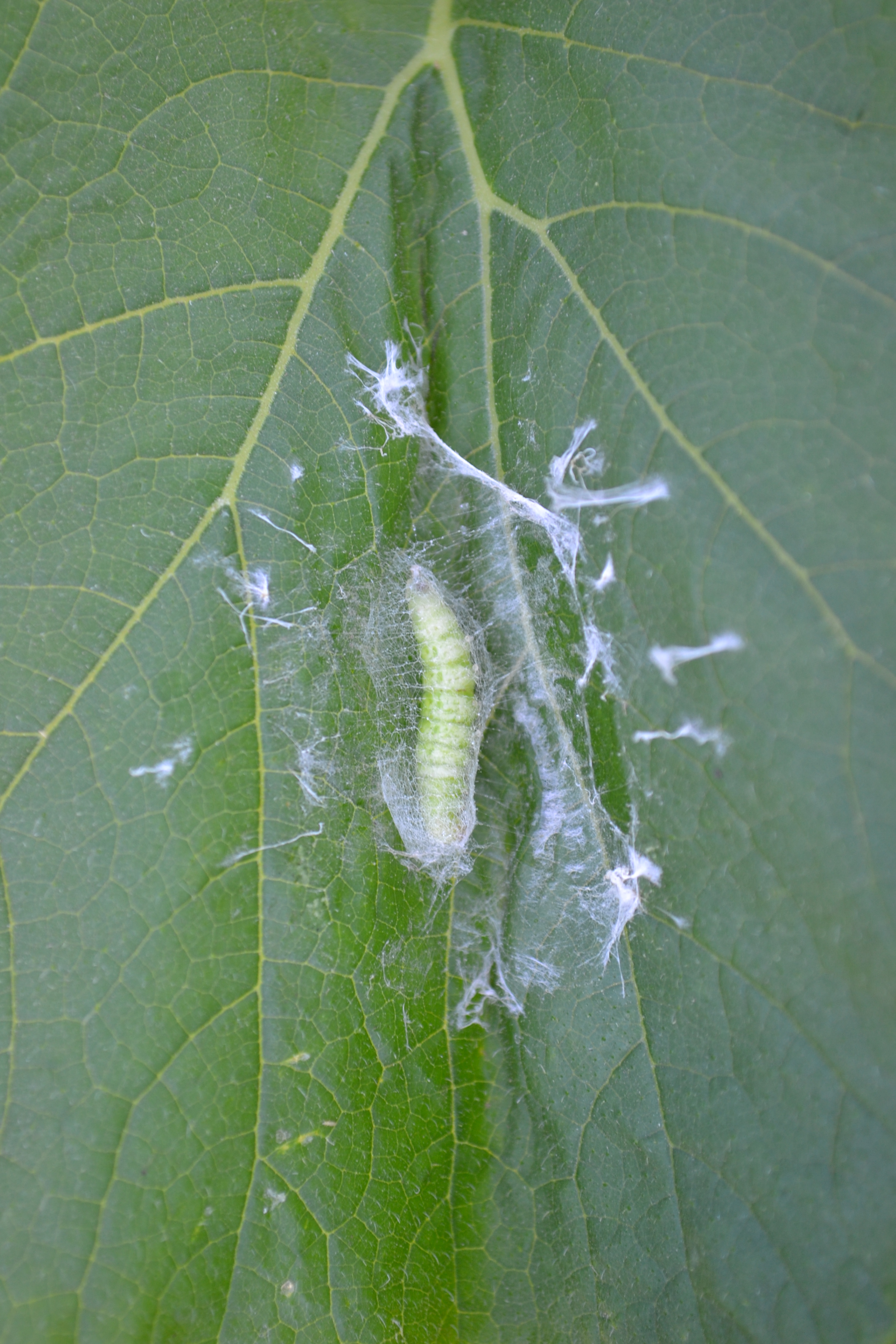 Eggs of Diaphania hyalinata on a squash fruit